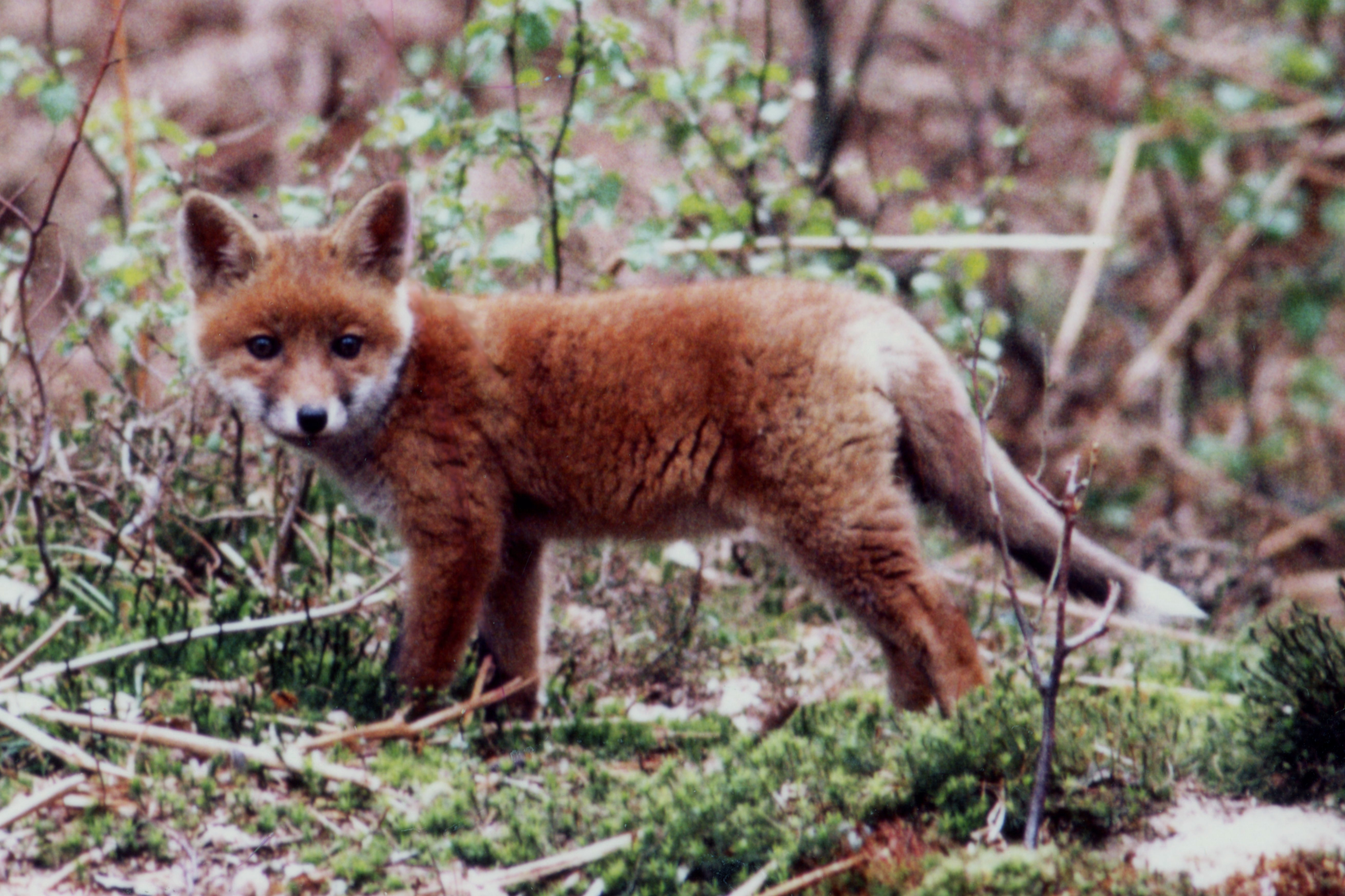 Red fox pup in a forest of Haute-Normandie.